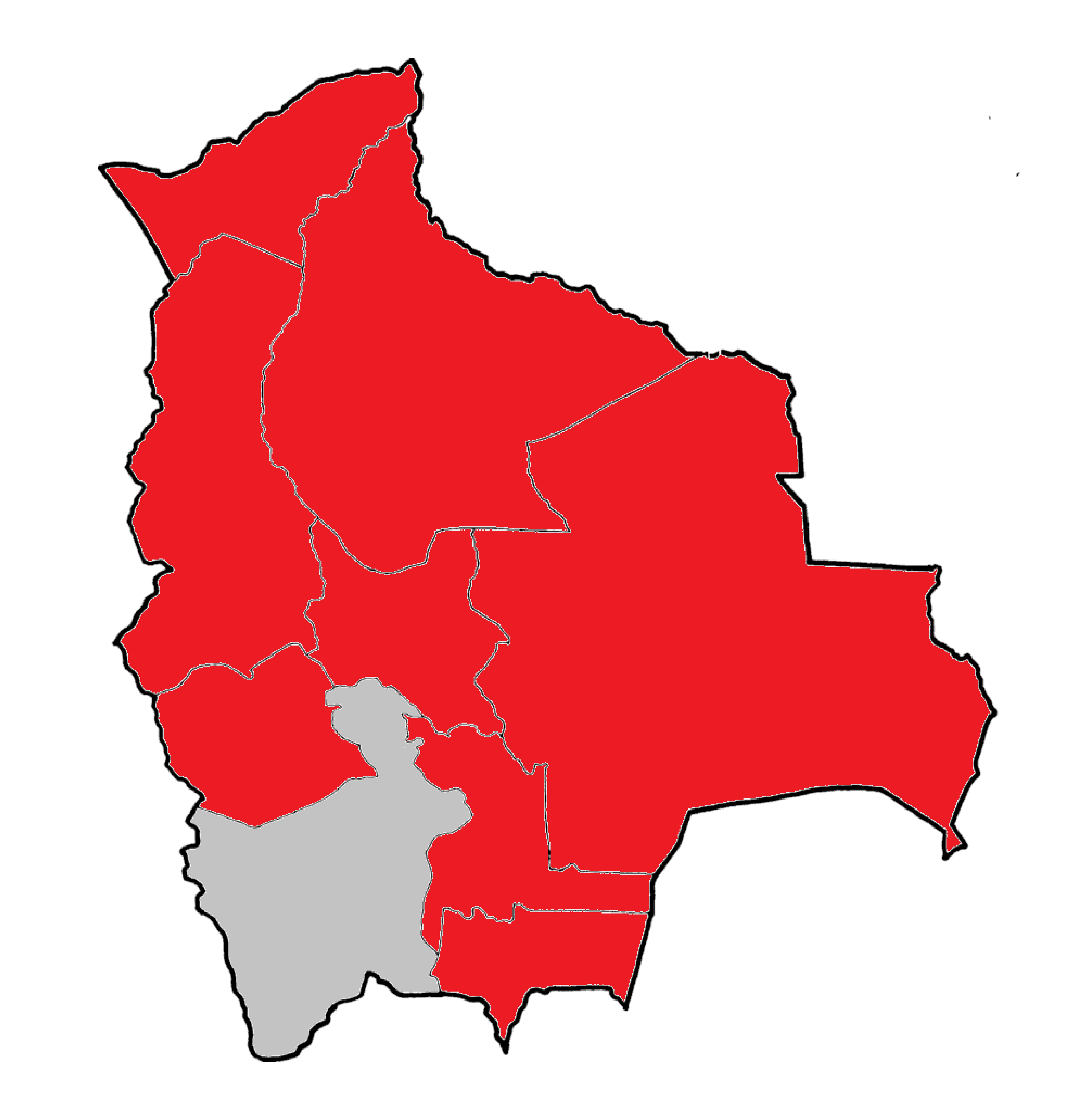 Dengue epidemic 2019-2020 in the Plurinational State of Bolivia